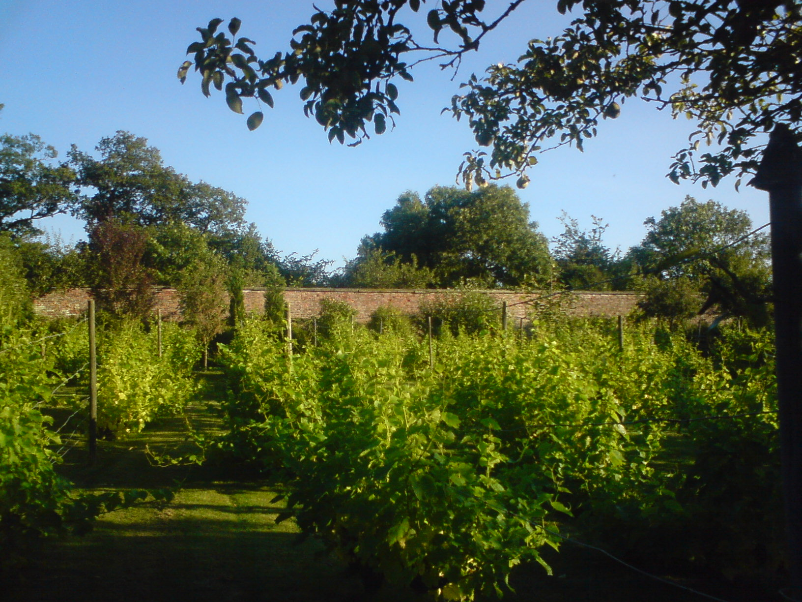 The vineyard in the walled garden at Whitworth Hall Country Park in County Durham. The most northerly vineyard in England, located in the North East.